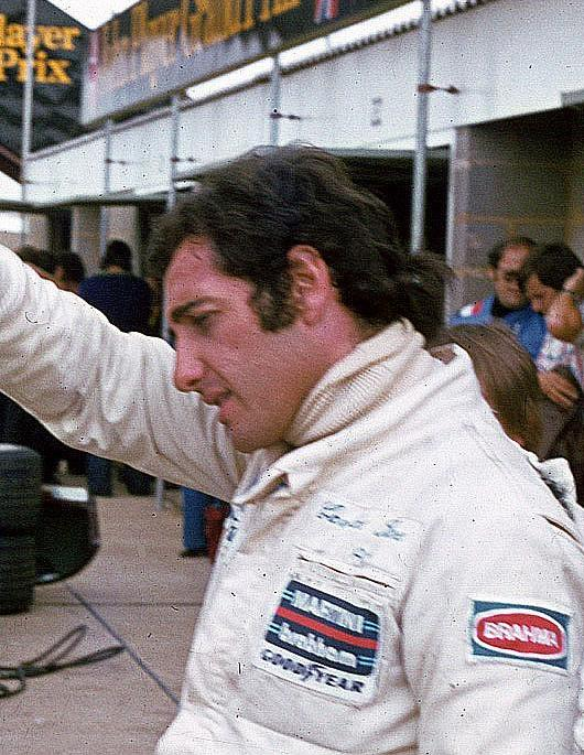 Carlos Pace in 1975 at pitlane John Player Grand Prix, Silverstone.